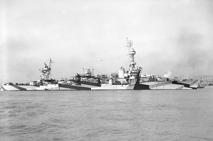 The U.S. Navy heavy cruiser USS Chester (CA-27) off San Francisco, California (USA), following an overhaul, circa in late May 1944. She wears Camouflage Measure 32, Design 9d.